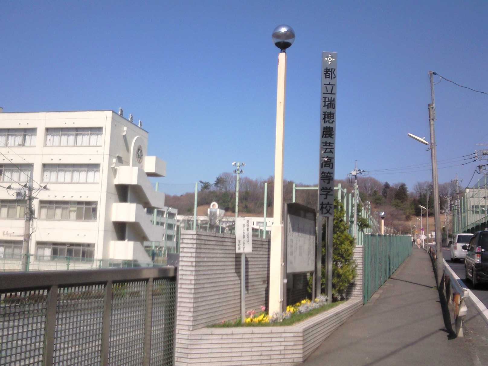 Mizuho Nougei High School